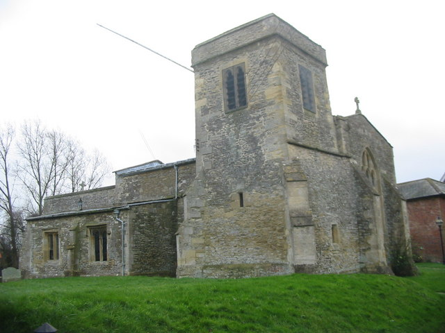 Church of England parish church of St James the Great, Denchworth, Oxfordshire: exterior view from the northwest.